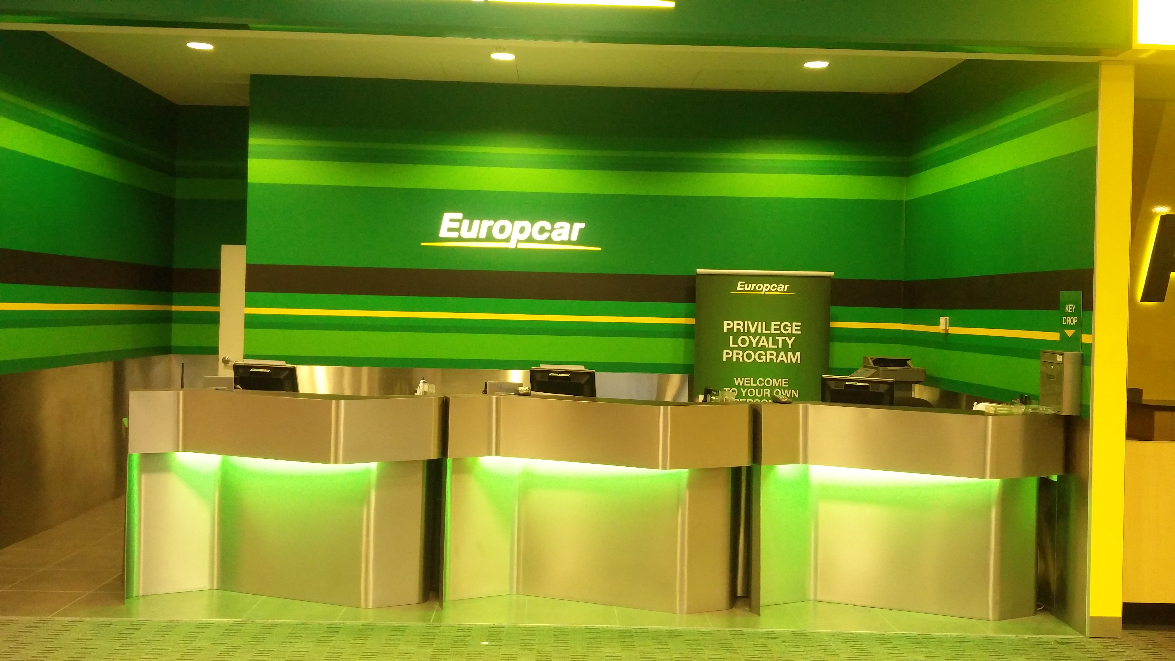 Europcar International Airport Terminal Christchurch NZ